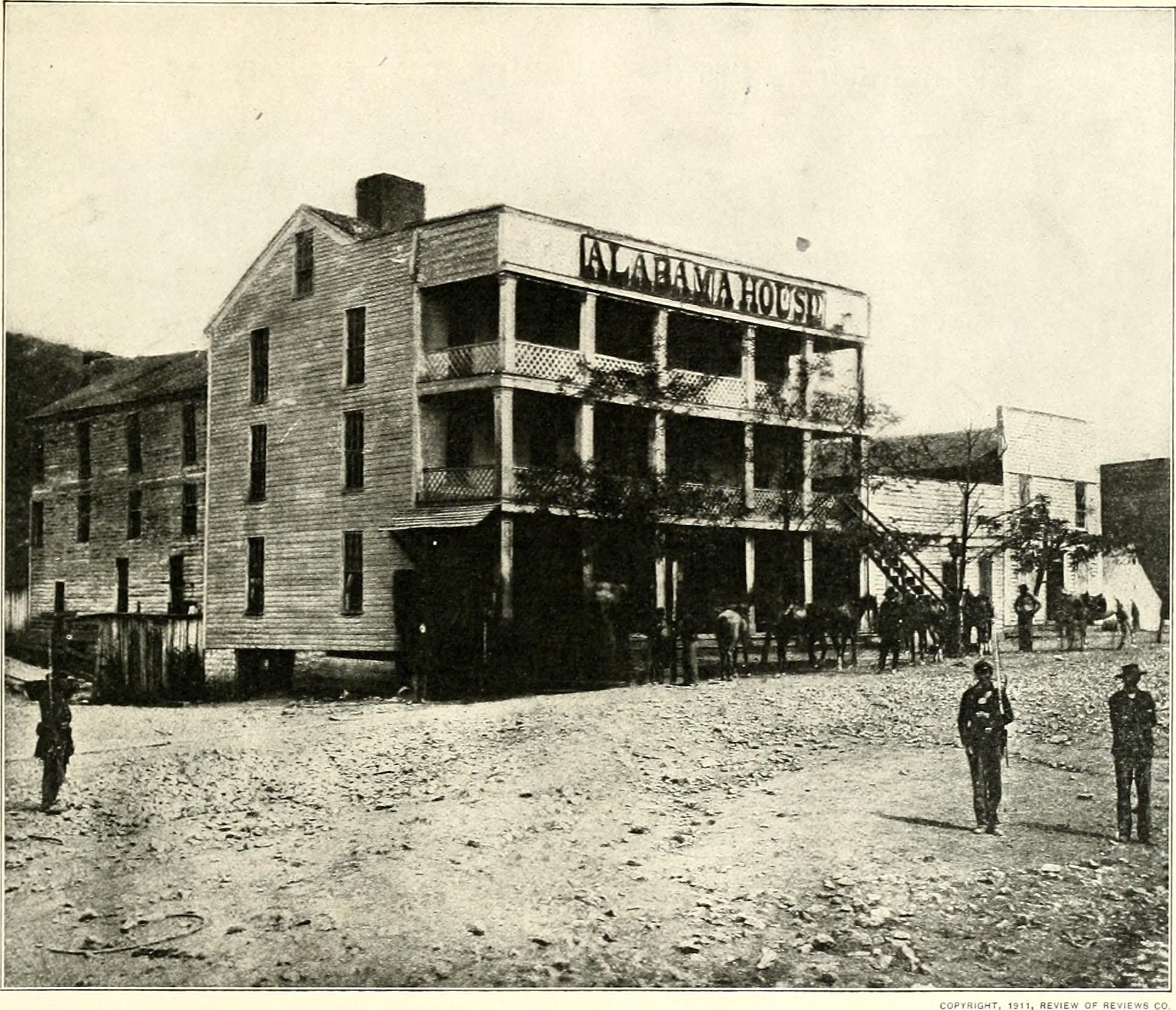 Title: The Civil War through the camera : hundreds of vivid photographs actually taken in Civil War times, together with Elson's new history Year: 1912 (1910s) Authors: Elson, Henry William, 1857- Brady, Mathew B., ca. 1823-1896 Civil War Semi-centennial Society Patriot Pub. Co., Springfield, Mass Subjects: Publisher: Springfield, Mass. : Patriot Pub. Co. Text Appearing Before Image: ' Text Appearing After Image: BEFORE CHICKAMAUGA—IX THE RUSH OF EVENTS Rarely does the camera afford such a perfectly contemporaneous record of the march of events so momentous.This photograph shows the hotel at Stevenson, Alabama, during the Union advance that ended in Chicka-mauga. Sentinels are parading the street in front of the hotel, several horses are tied to the hotel posts, andthe officers evidently have gone into the hotel headquarters. General Alexander McDowell McCook, com-manding the old Twentieth Army Corps, took possession of the hotel as temporary headquarters on themovement of the Army of the Cumberland from Tullahoma. On August 29, 1863, between Stevenson andCapertons Ferry, on the Tennessee River, McCook gathered his boats and pontoons, hidden under the densefoliage of overhanging trees, and when ready for his crossing suddenly launched them into and across theriver. Thence the troops marched over Sand Mountain and at length into Lookout Valley. During themovements the army was in extreme peri